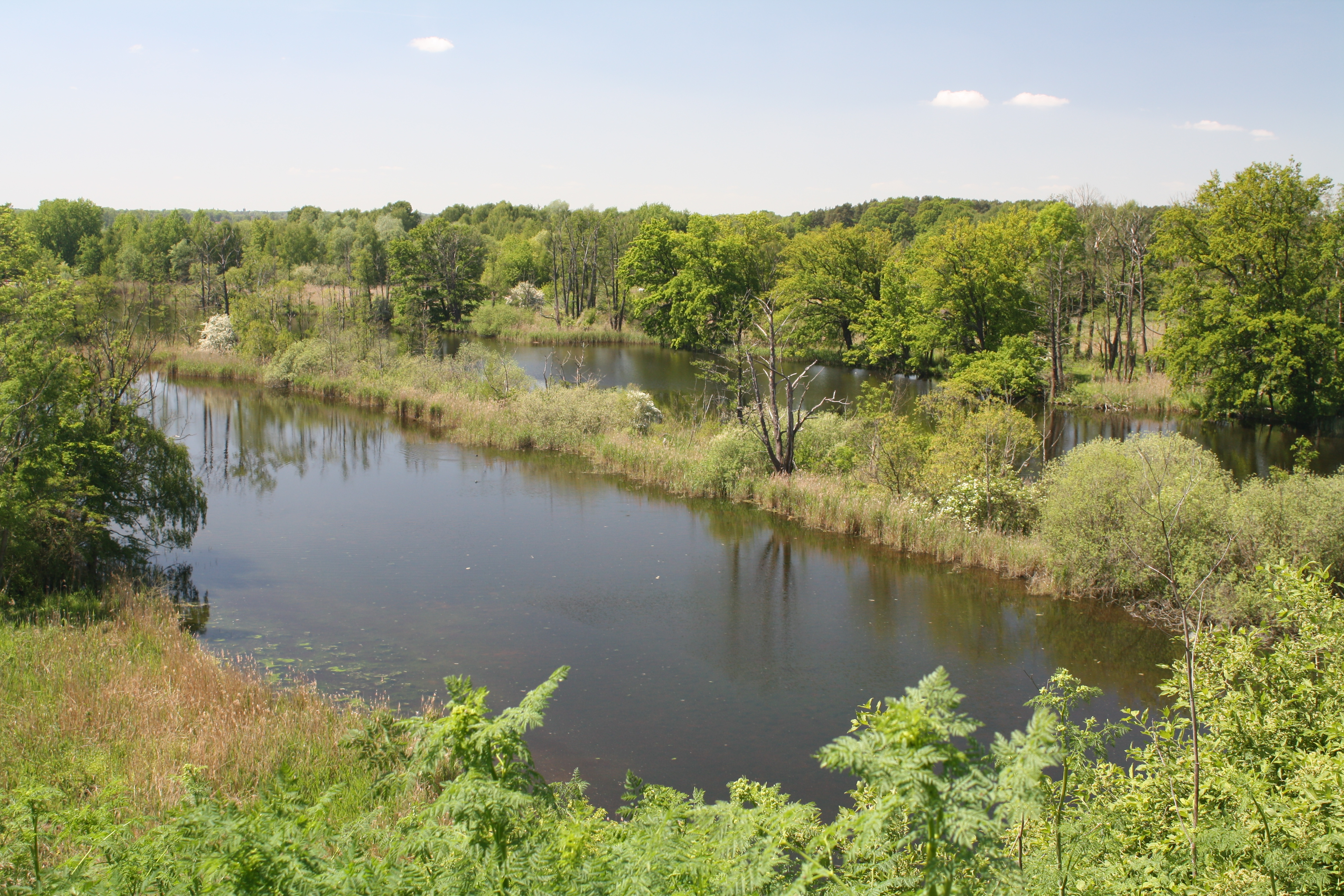 Lake Köppchensee in nature reserve “Niedermoorwiesen am Tegeler Fließ”.